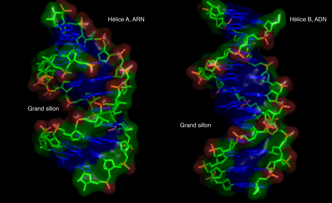 Comparison of A-form RNA and B-form DNA helices. Generated with Pymol using the 1BNA and 1QCU PDB entries